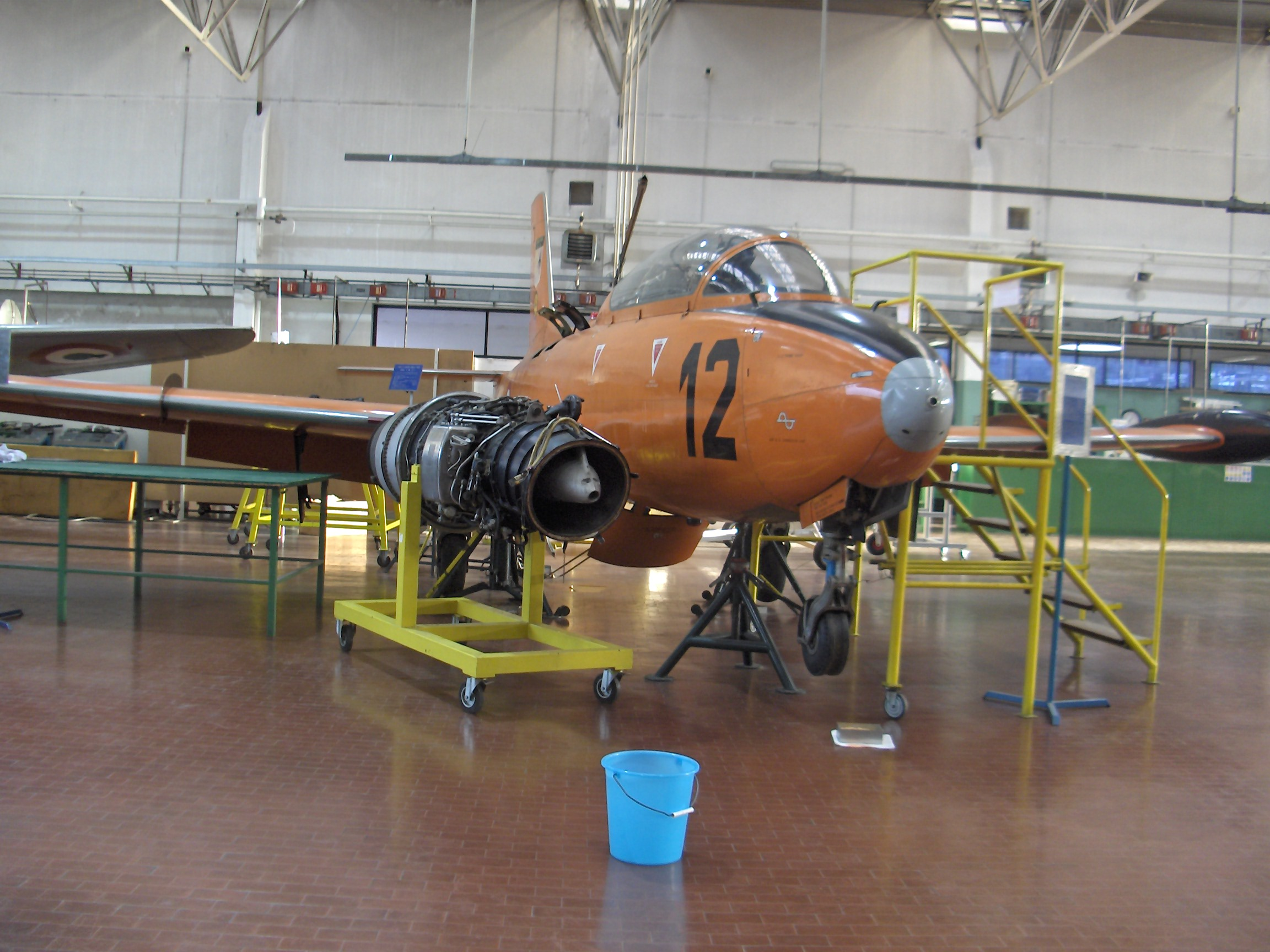 Aermacchi MB-326A and its engine Bristol Siddeley Viper Mk.22